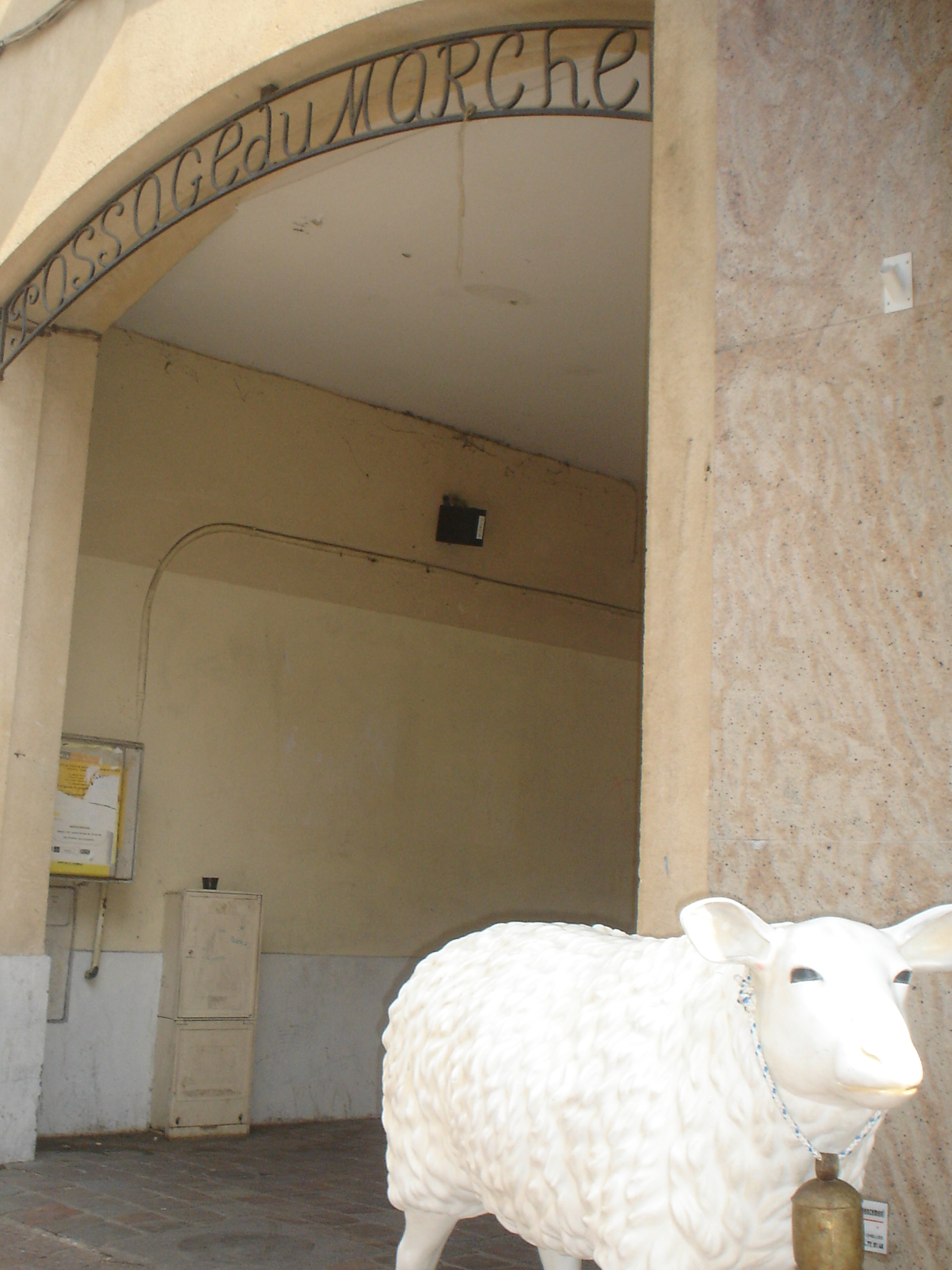 A gallery leading to the market of Nanterre, Hauts-de-Seine, France.